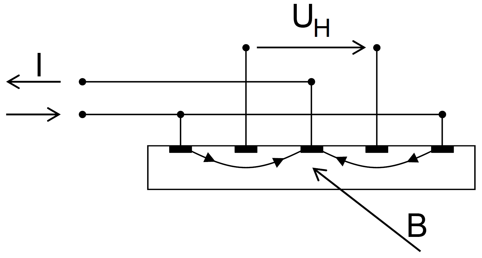 Schnitt durch einen vertikalen Hall-Sensor (mit fünf Kontakten) mit dem die magnetische Flussdichte parallel zur Chipoberfläche gemessen werden kann.